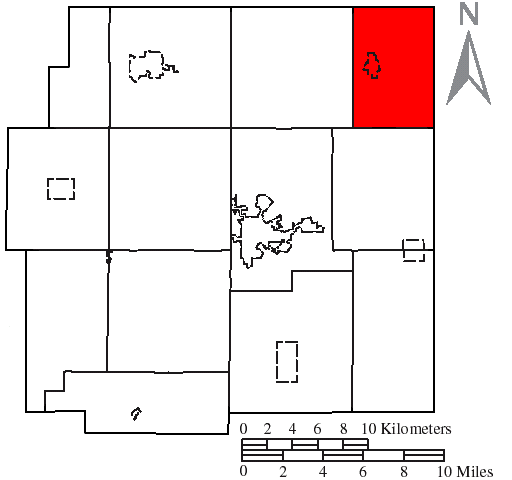 Made by the US Census and modified by myself